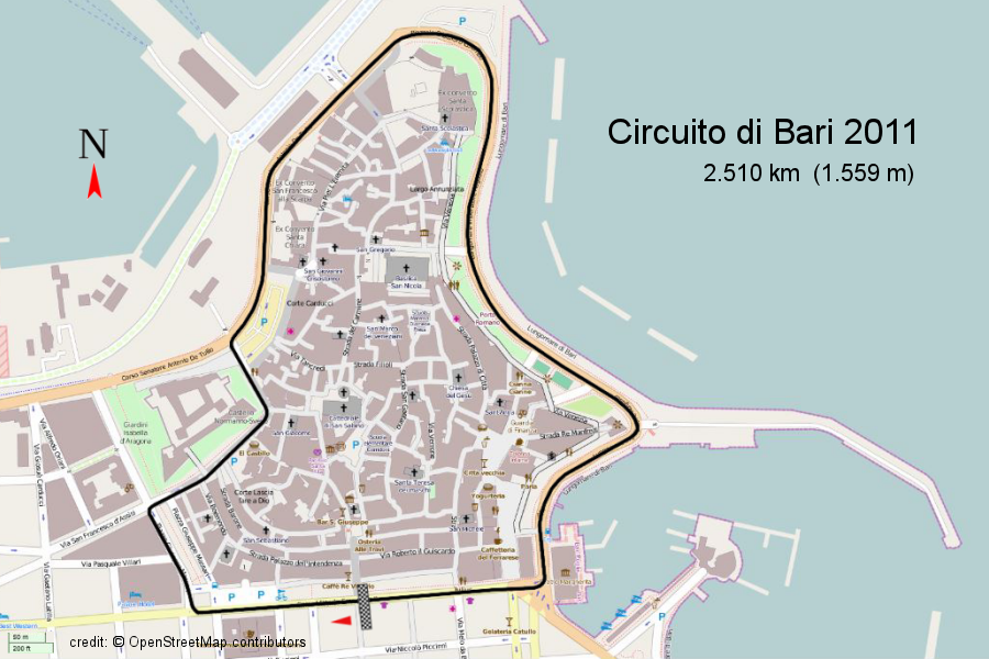 Circuito di Bari 2010